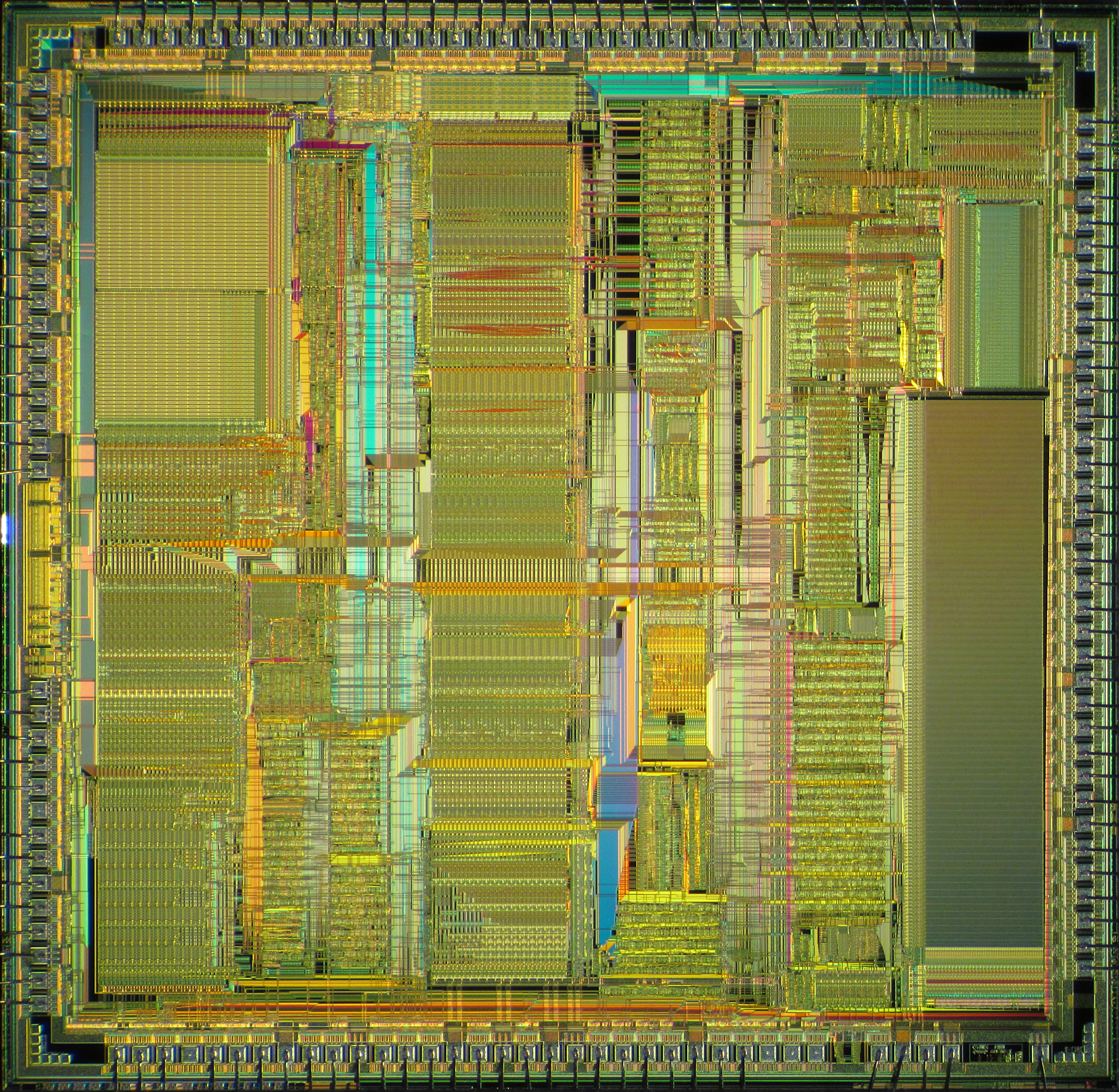 Die shot of Cyrix Cx486DRx²25/50GP microprocessor.